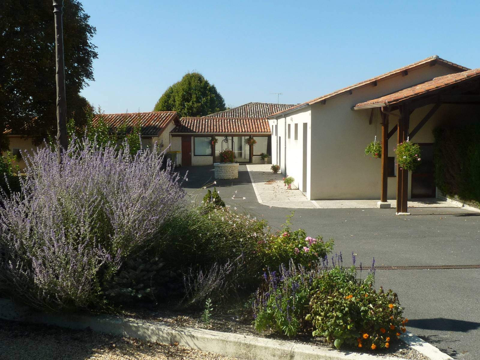 meeting room